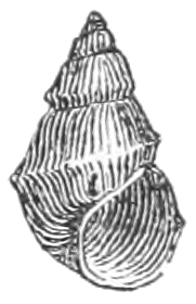 Drawing of apertural view of the shell of Pyrgulopsis nevadensis.